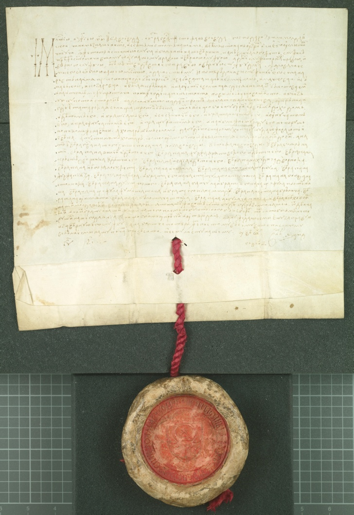 The document which first time attests Chişinău